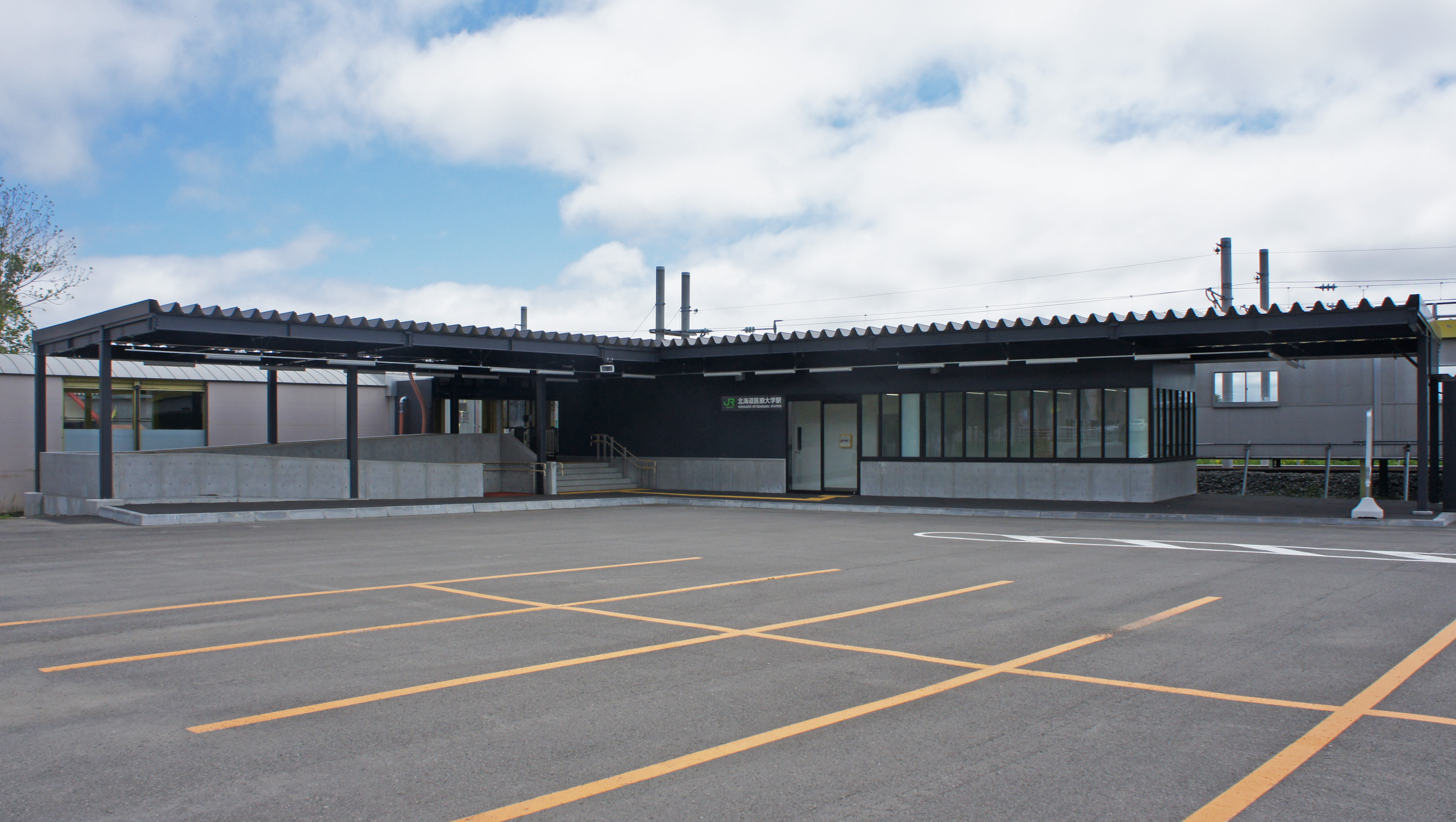 East Exit (West side) of JR Sassho-Line Hokkaido-Iryodaigaku Station Sony NEX-3 + E 18-55mm F3.5-5.6 OSS